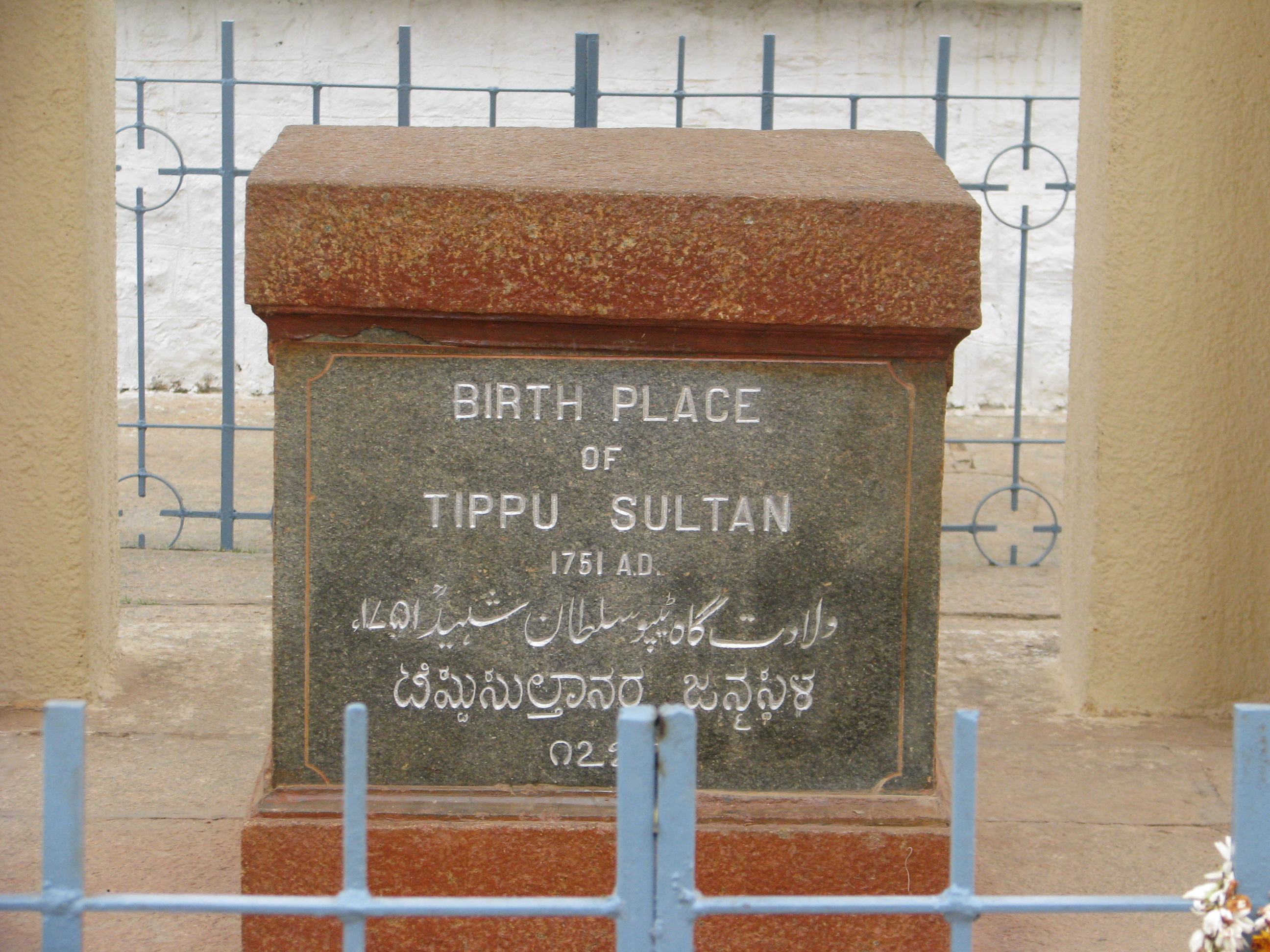 Tipu Birth place